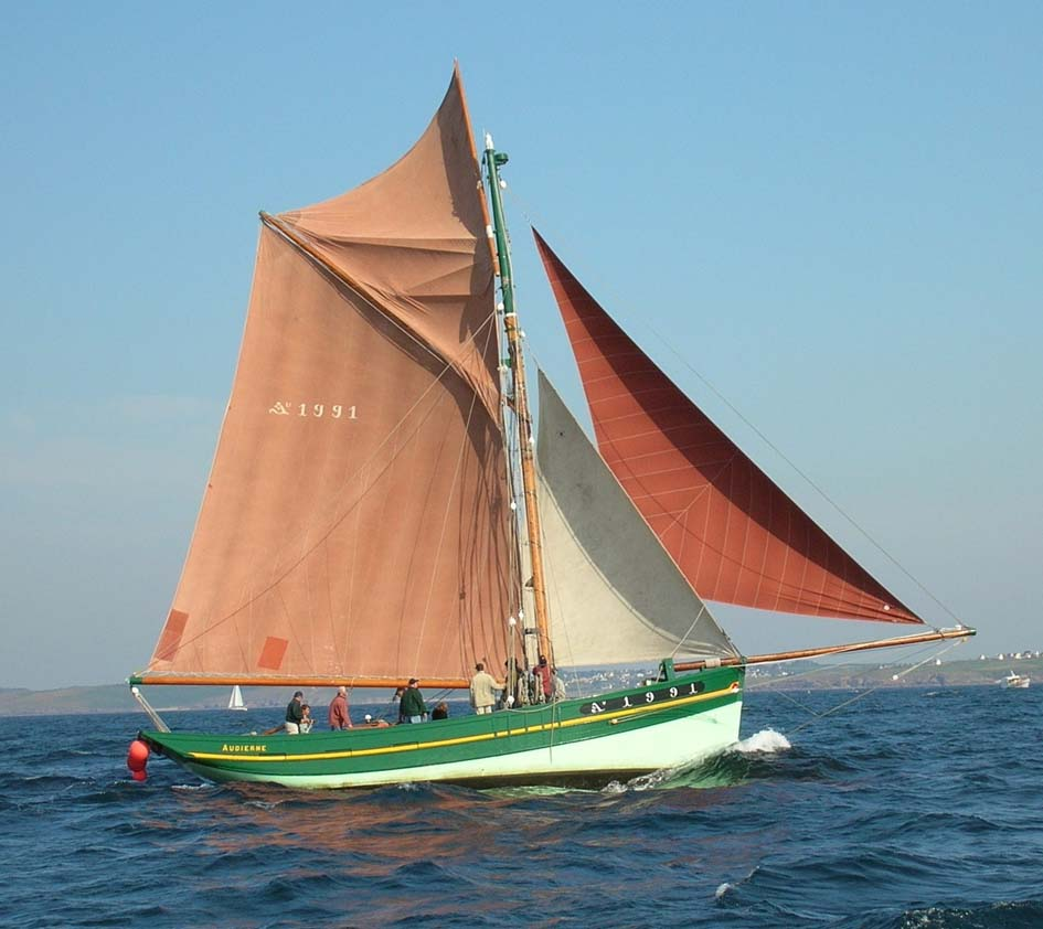 picture of capsizun's boat